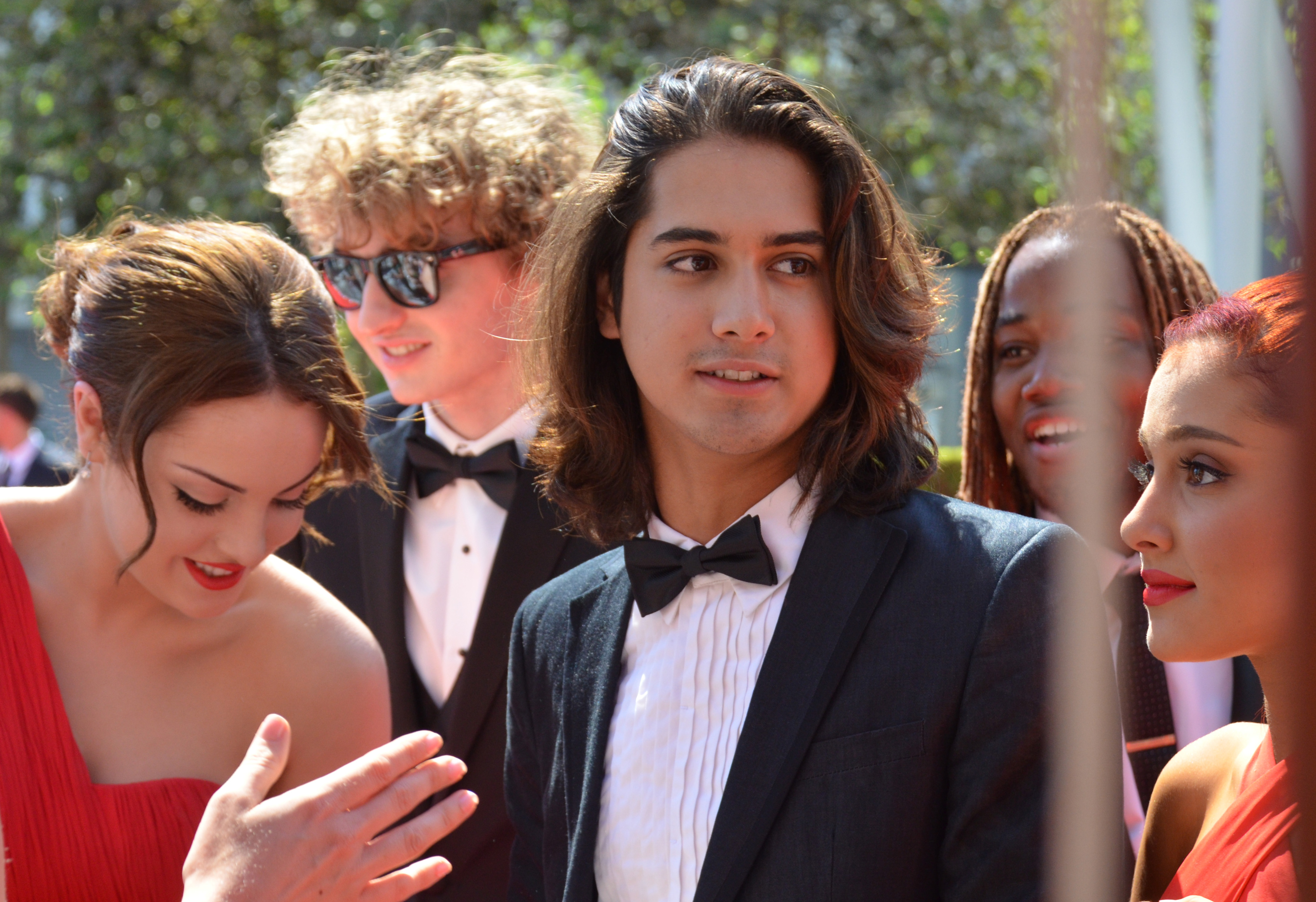 Victorious Cast at the 2012 Primetime Creative Arts Emmys.